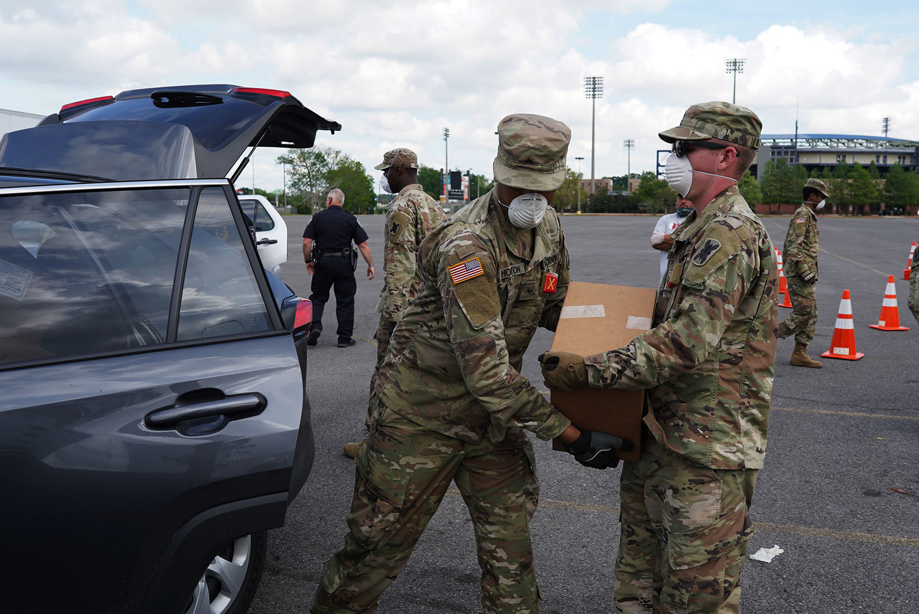 Louisiana National Guardsmen help distribute food for the Second Harvest Food Bank of South Louisiana at the Shire on Airline stadium parking lot, Metairie, Louisiana, April 6, 2020. To date the Guard has helped to pack over 134,655 pounds of food for distribution across the state in several food banks. (U.S. Army National Guard photo by Spc. Duncan Foote)